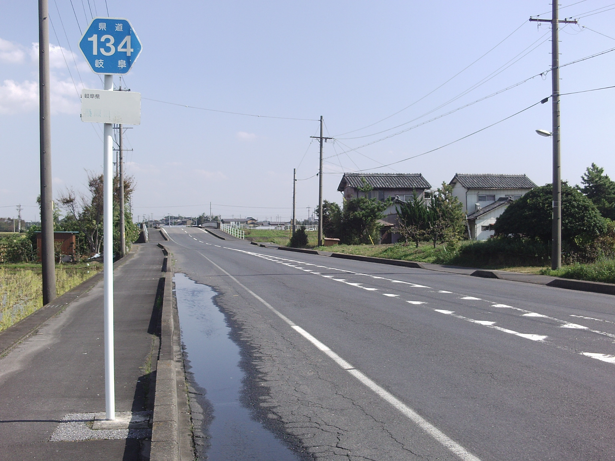 The Gifu Prefectural Road Route 134 in Kuwabaracho Yagami, Hashima City